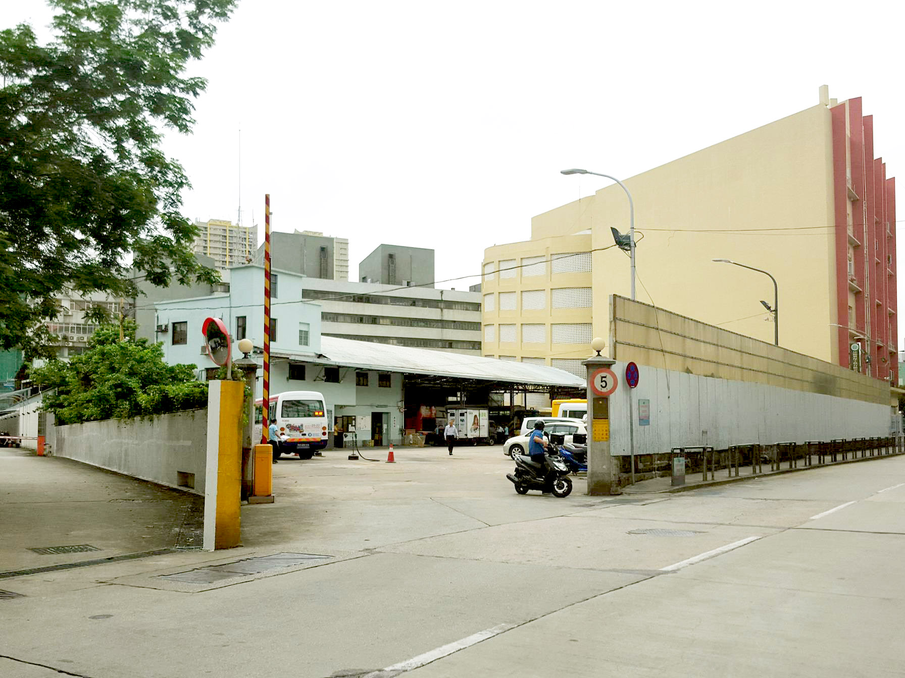 Transmac Main Bus Depot